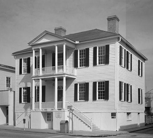 John Mark Verdier House - 810 Bay St. (Beaufort, South Carolina) (cropped)